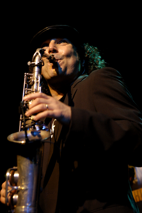 Boney James at the Jazz Cafe, 2005